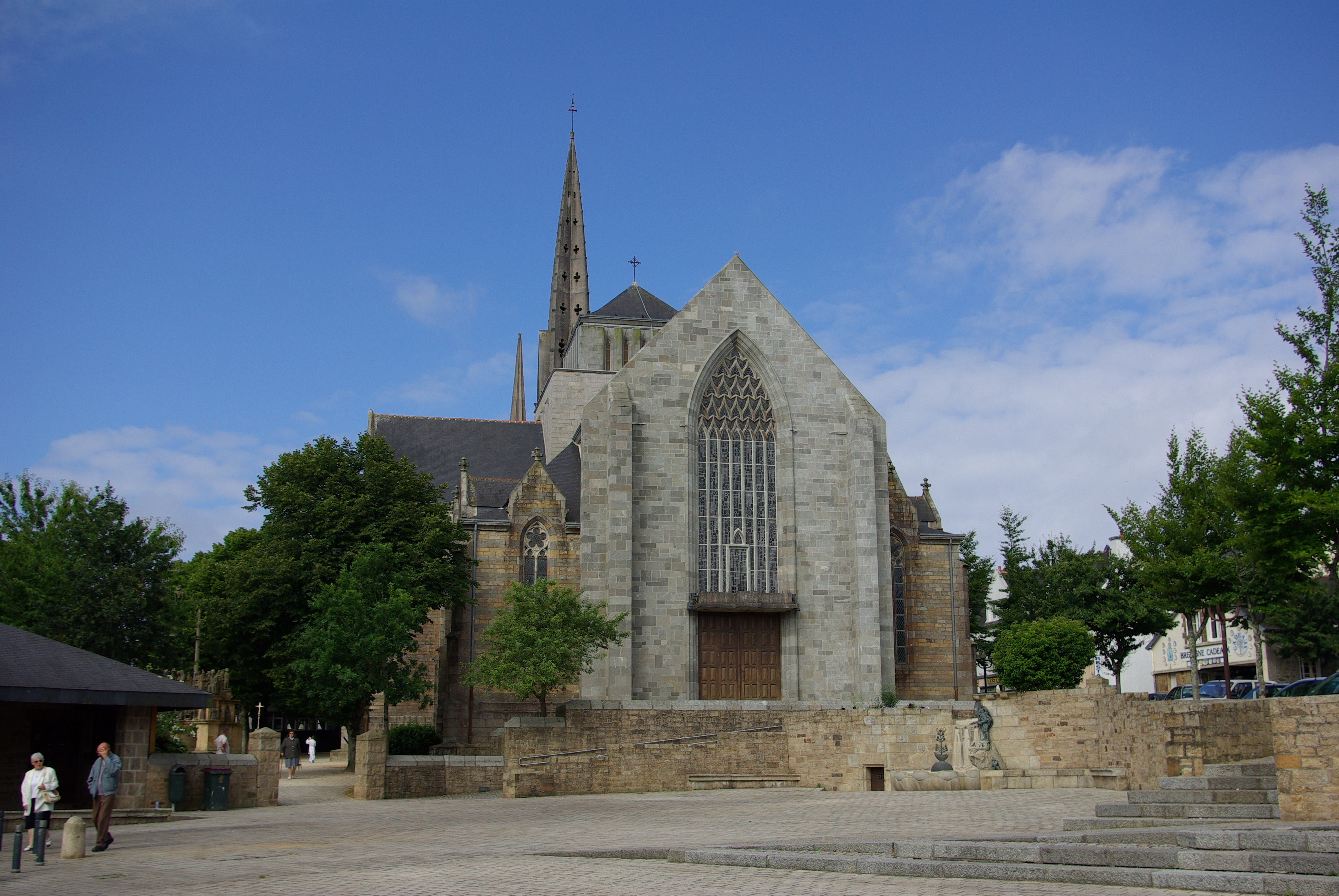 Church of Plougastel (Finistère, France)